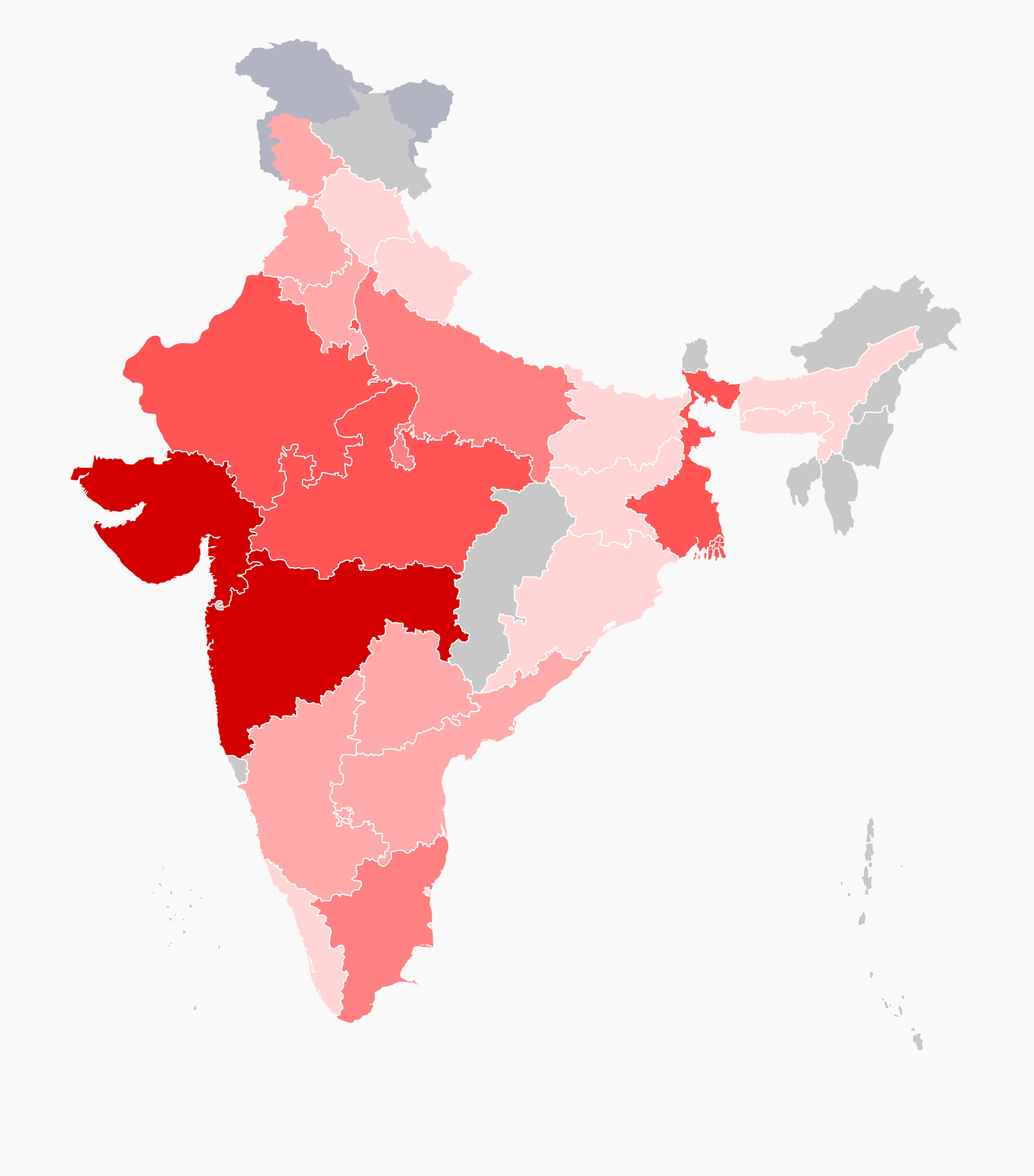 Map of COVID-19 Death Cases in India As of 15 May 2020 500+ death cases 100–499 death cases 50–99 death cases 10–49 death cases 1–9 death cases